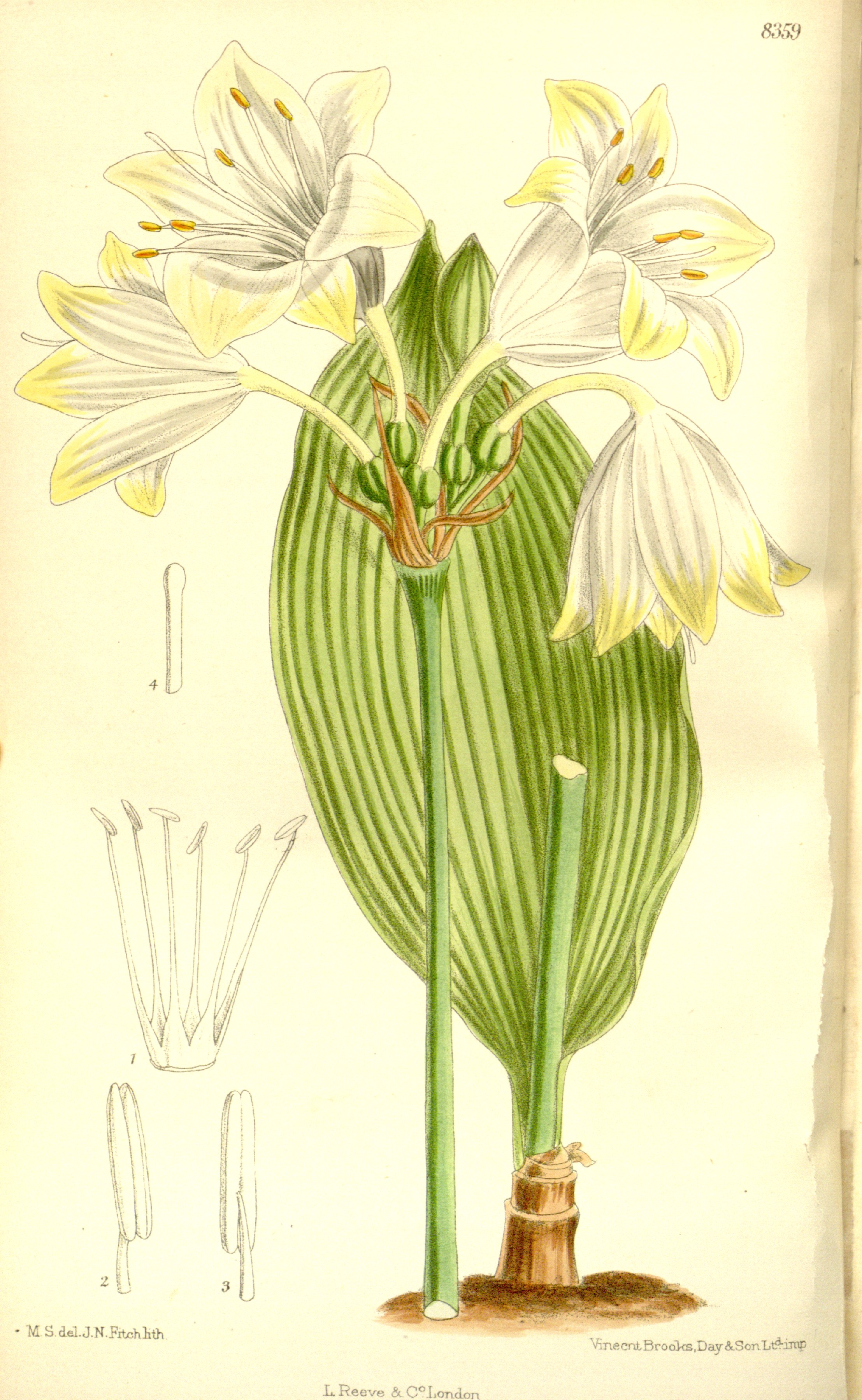 ×Urceocharis edentata (= Eucharis sp. × Urceolina sp.), Amaryllidaceae